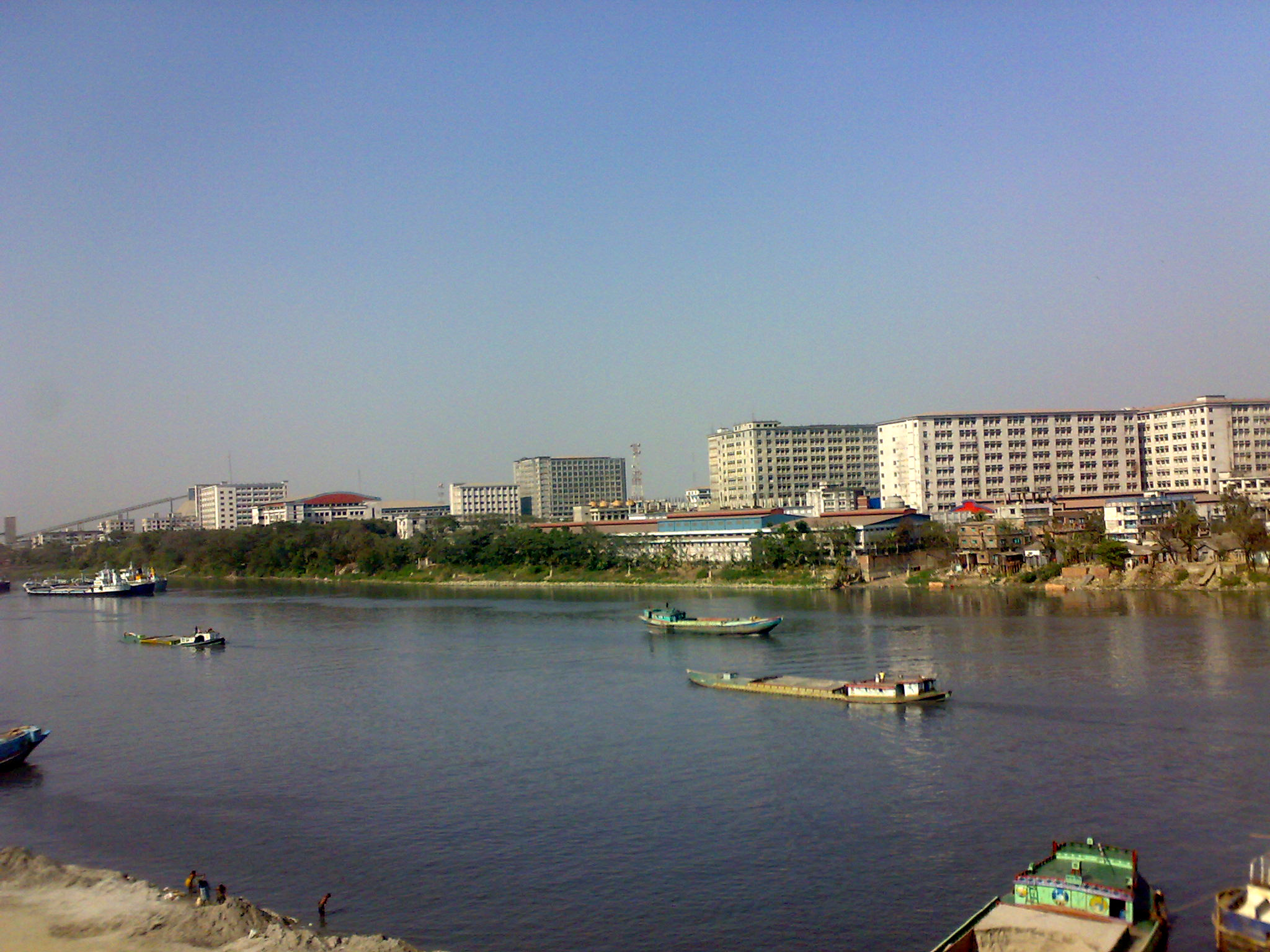 Kanchpur Industrial Area from Shitalaksha river view, Kanchpur, Pupgonj, Narayangonj.